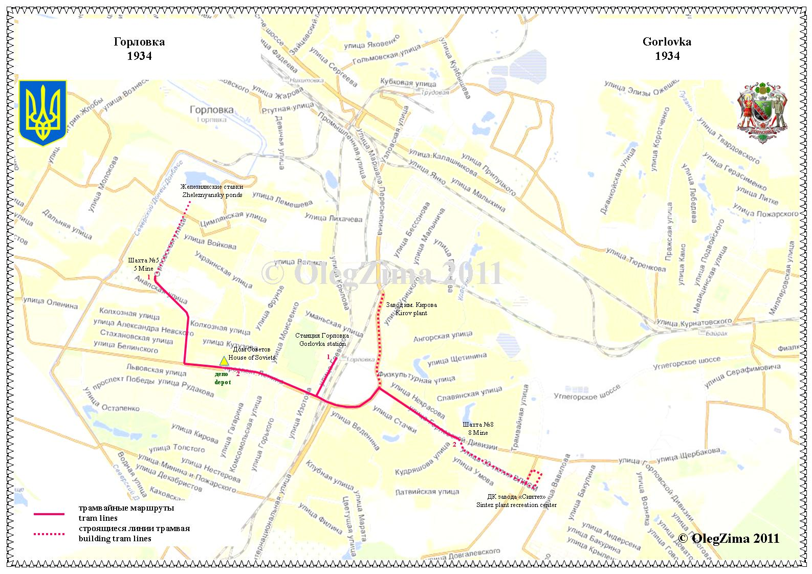 map of transport of Gorlovka (Horlivka) city at 1934